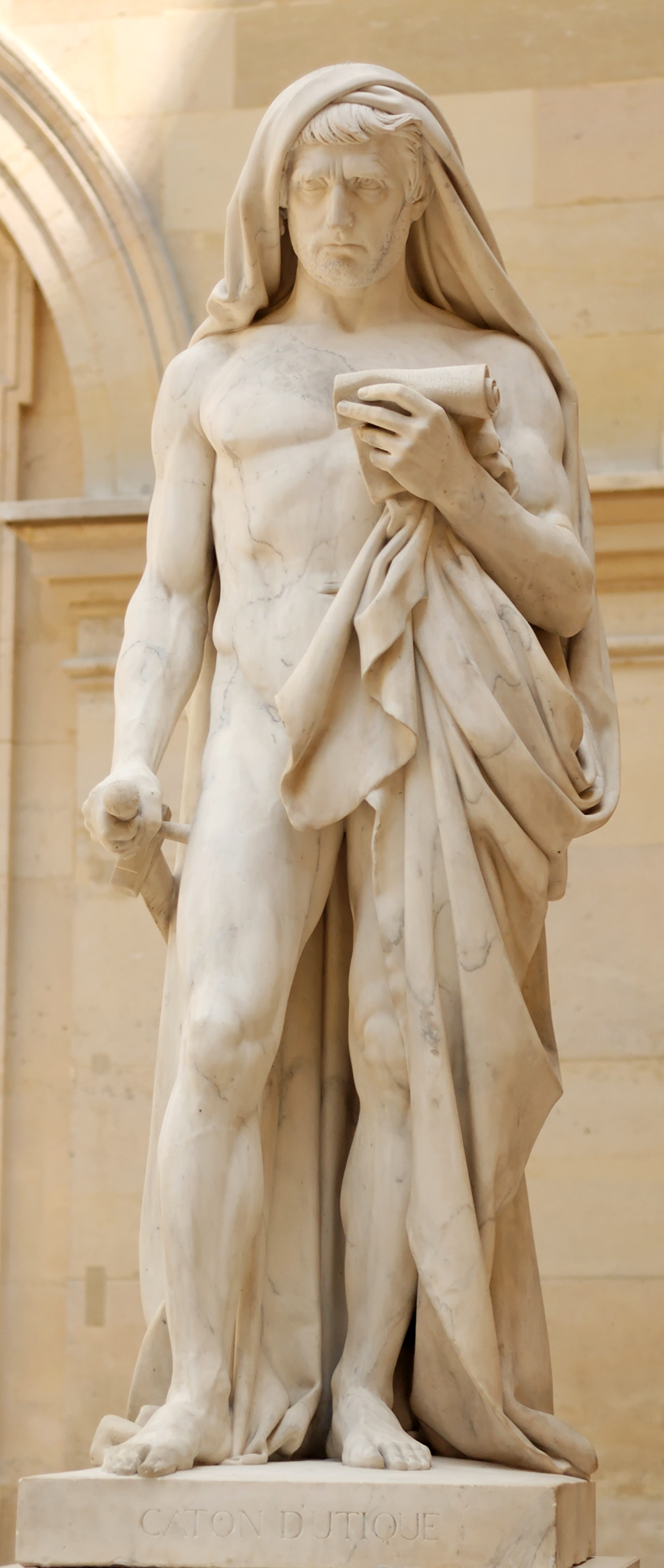 Caton d'Utique lisant le Phédon avant de se donner la mort (Cato of Utica reading the Phaedo before committing suicide). Carrara marble, 1840. Commissioned in 1832, the work was unfinished at Roman's death. Rude carried it on and finished the sculpture in 1840.